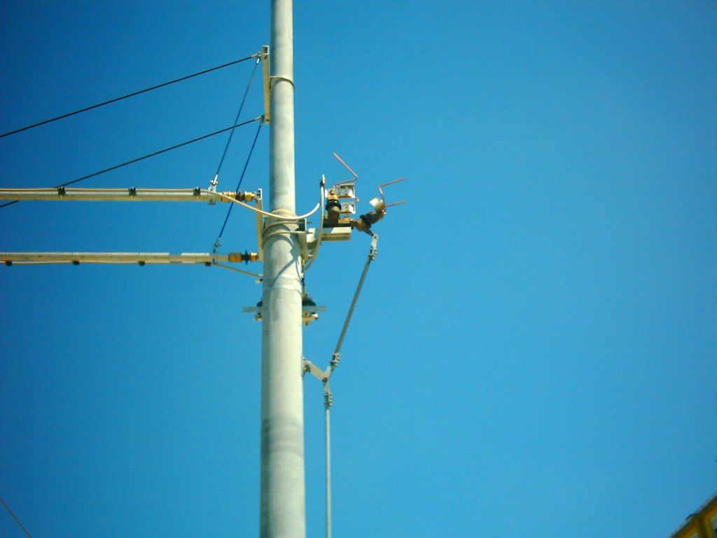 Open switchgear for tramway electrification (600V). This type is built in on the tramway network of the city of Osijek.